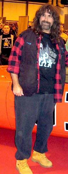 Mick Foley at a Convention in November 2007